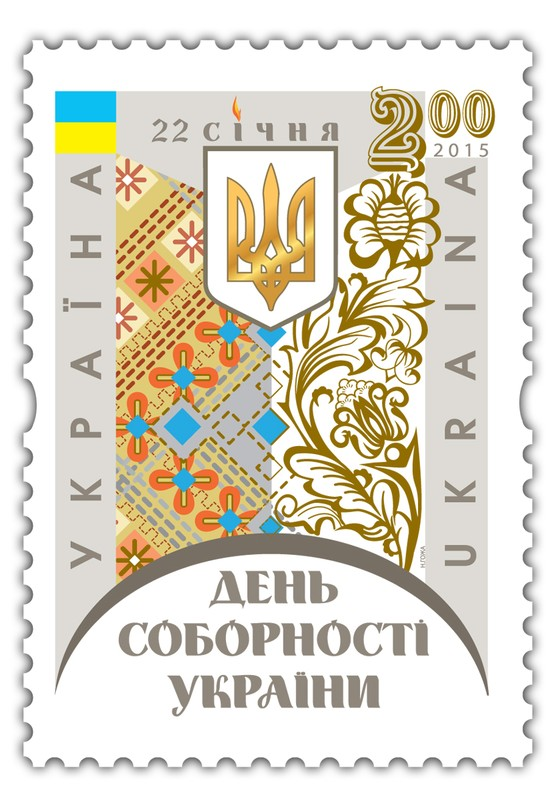 Stamp of Ukraine, 2015